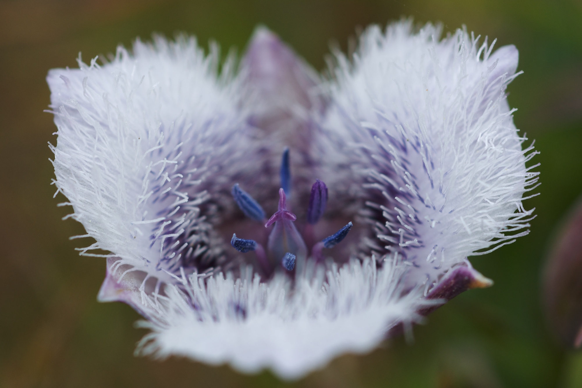 Calochortus tolmiei — common name: Pussy Ears, Tolmie star-tulip. Photographed on the trail leading down to Stump Beach, Salt Point State Park, Sonoma County, California. Species from California, Oregon, & Washington.